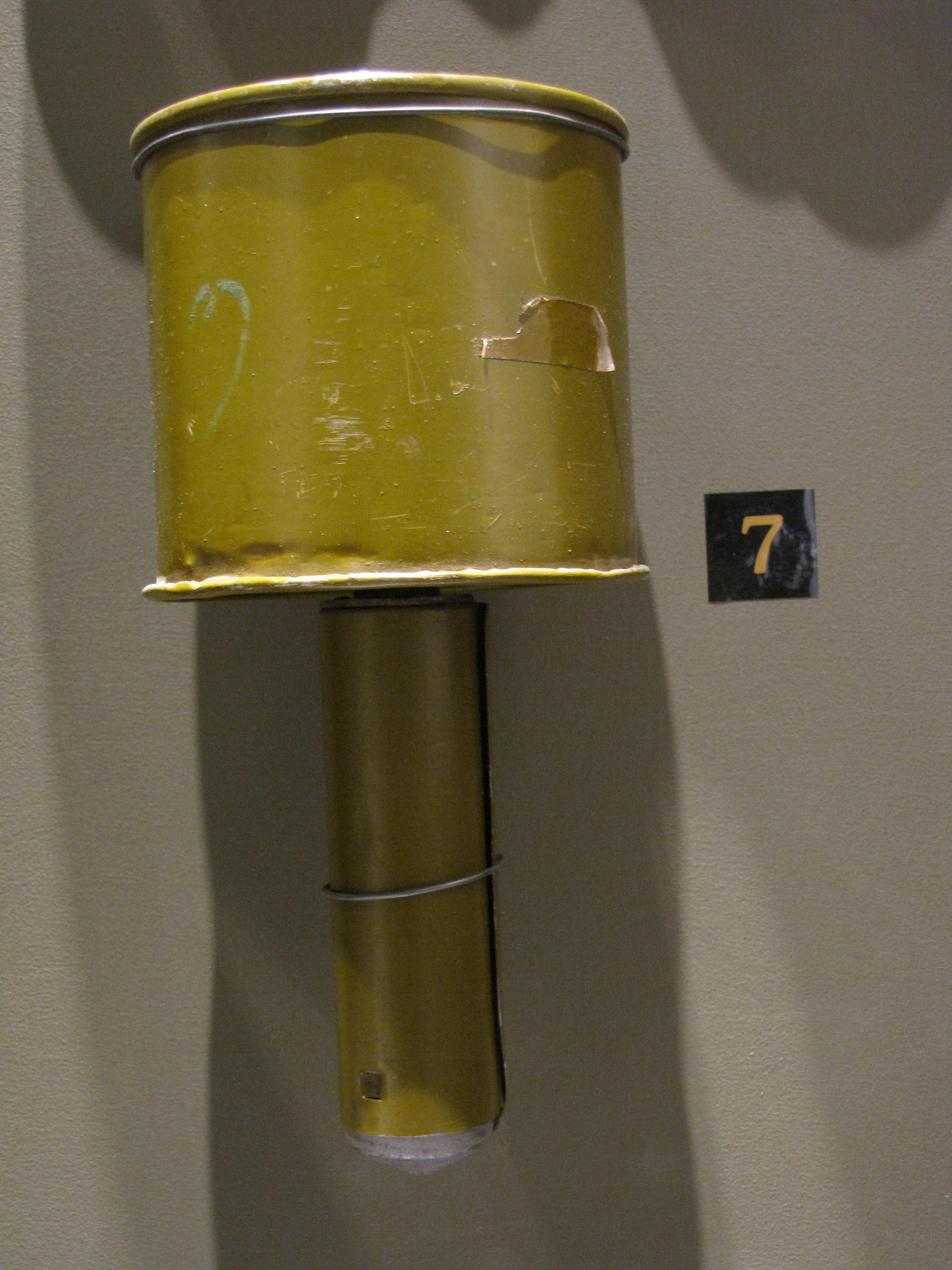 Soviet RPG-40 anti-tank stick hand grenade. Photographed in the "Winter War - 70 years" exhibition in the Military Museum of Finland.